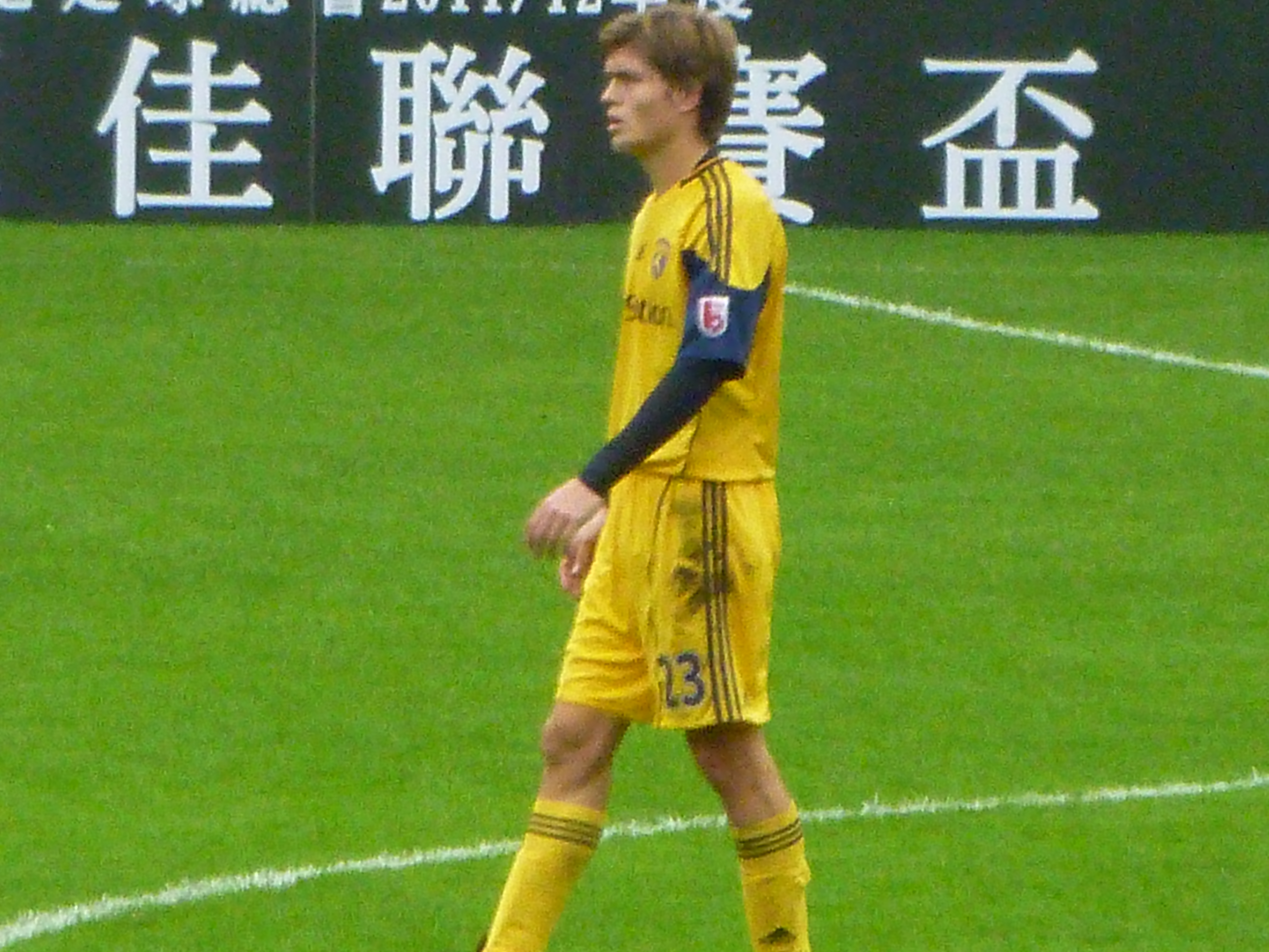 Jaimes Anthony McKee (25 Feb 2012 Hong Kong League Cup quarter final, TSW Pegasus vs Sham Shui Po, Mong Kok Stadium)